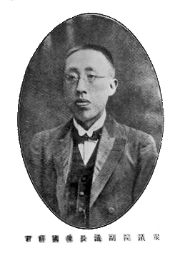 Chen Guoxiang (1879?-?)